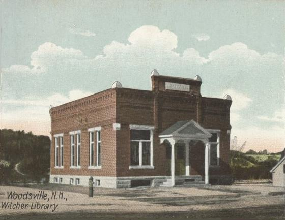 Witcher Library, Woodsville, New Hampshire. The Woodsville Free Public Library was built in 1894.